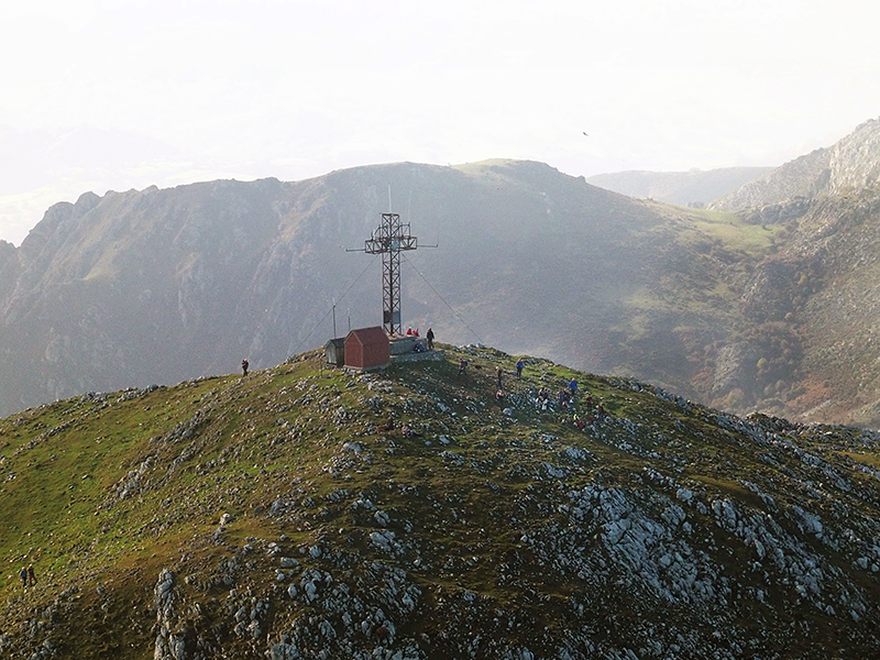 Aerial view of the Pienzu peak, Cordillera Cantábrica, Asturias